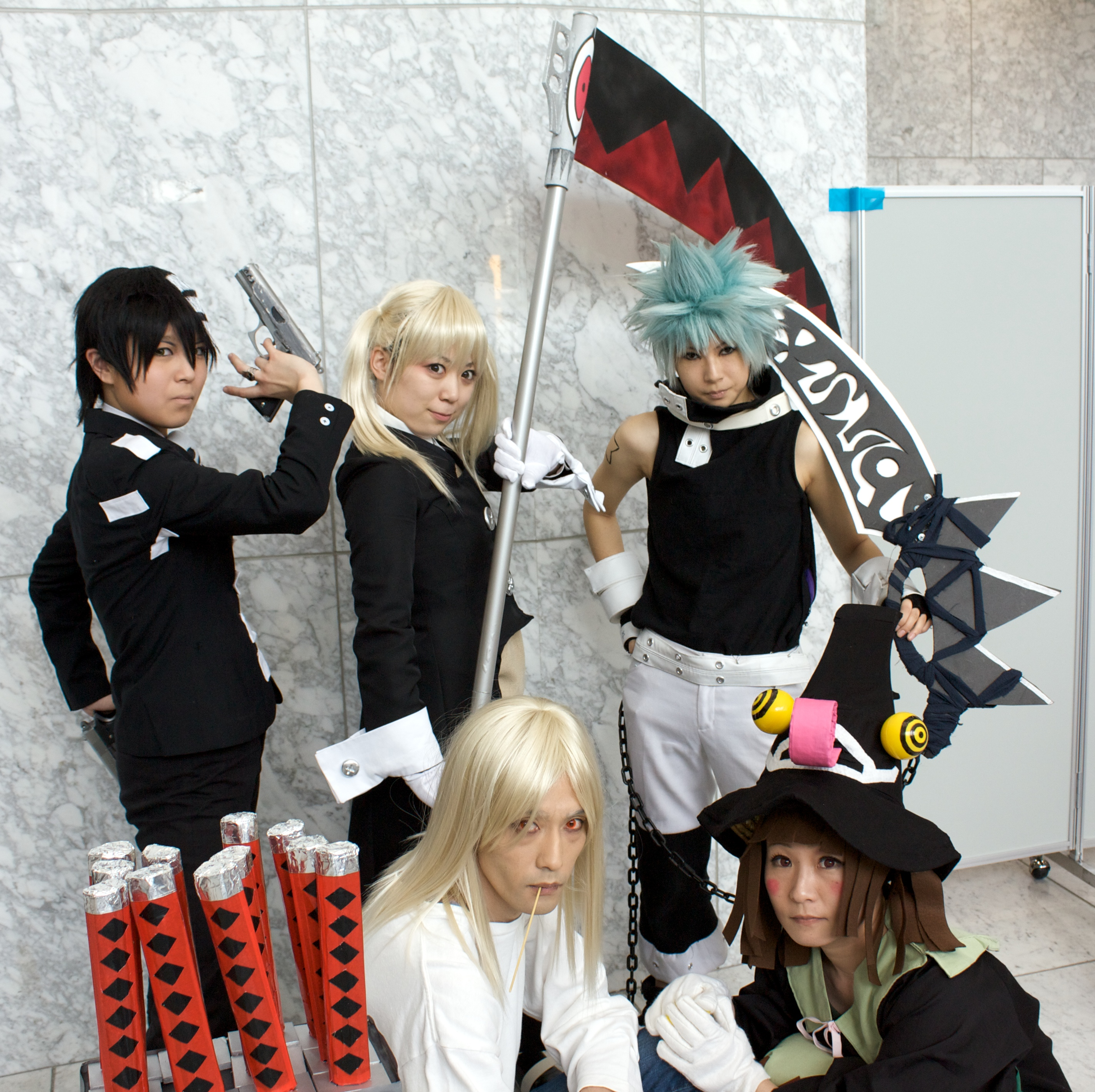 Soul Eater cosplay